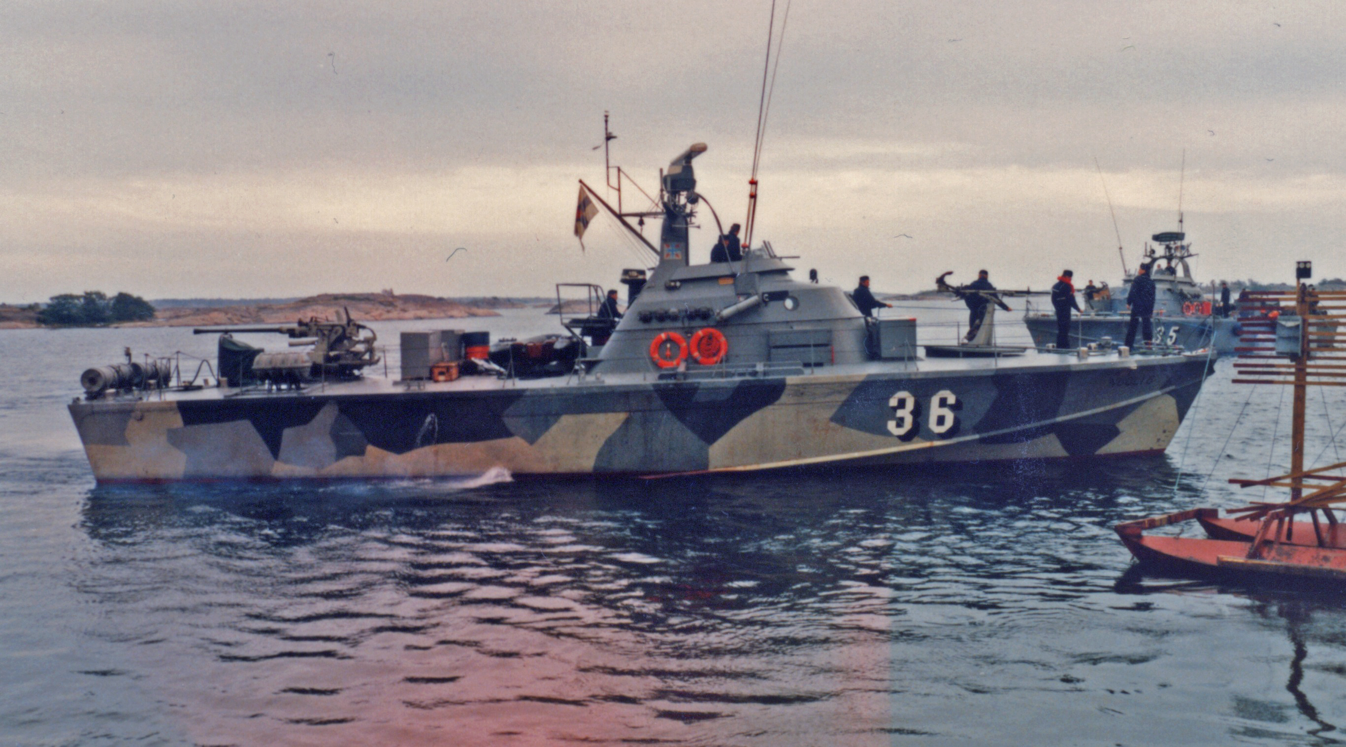 Nuoli Class fast attack boat of Finnish Navy, photo taken in 1982